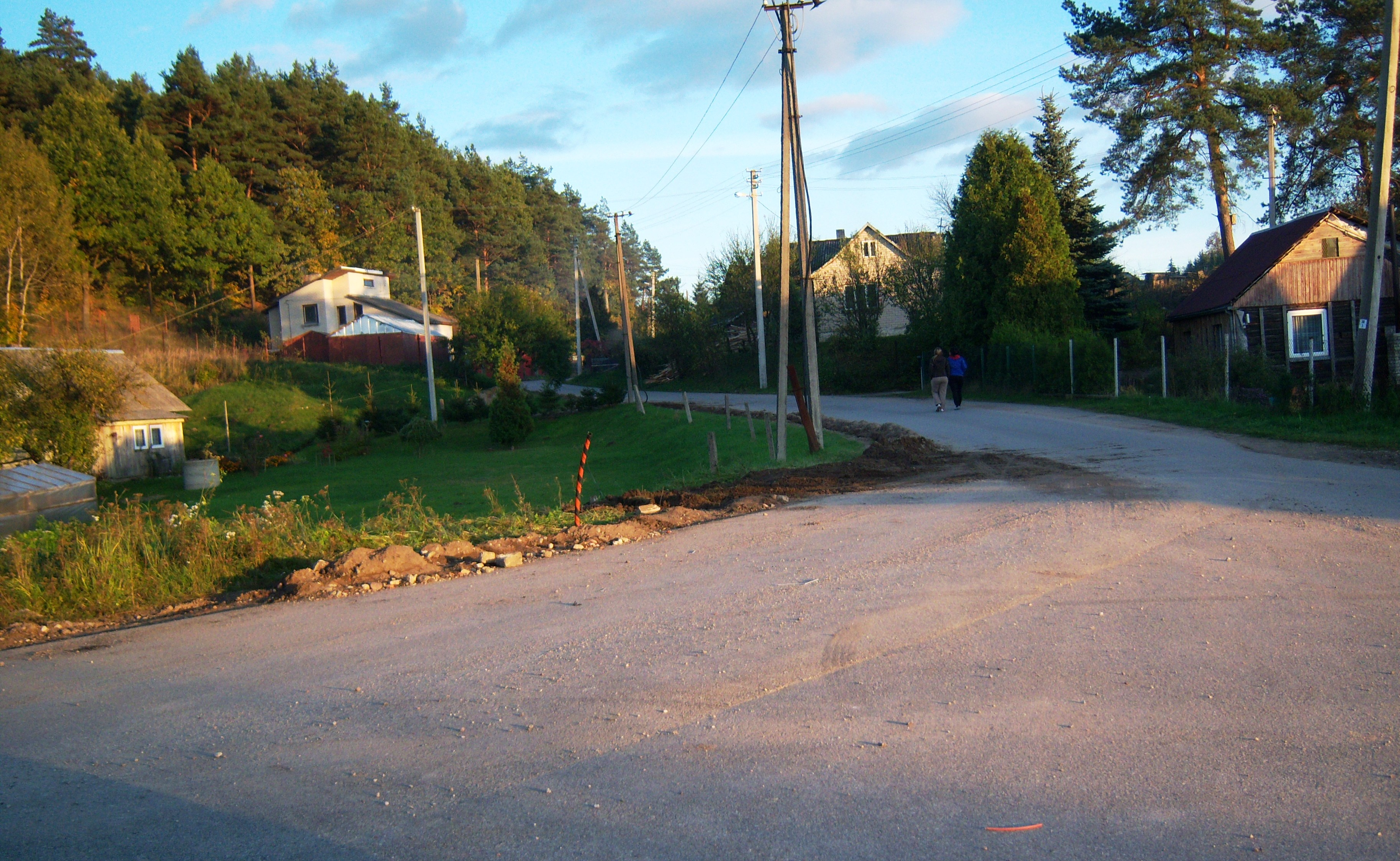 Šešuva, Jonava District, Lithuania